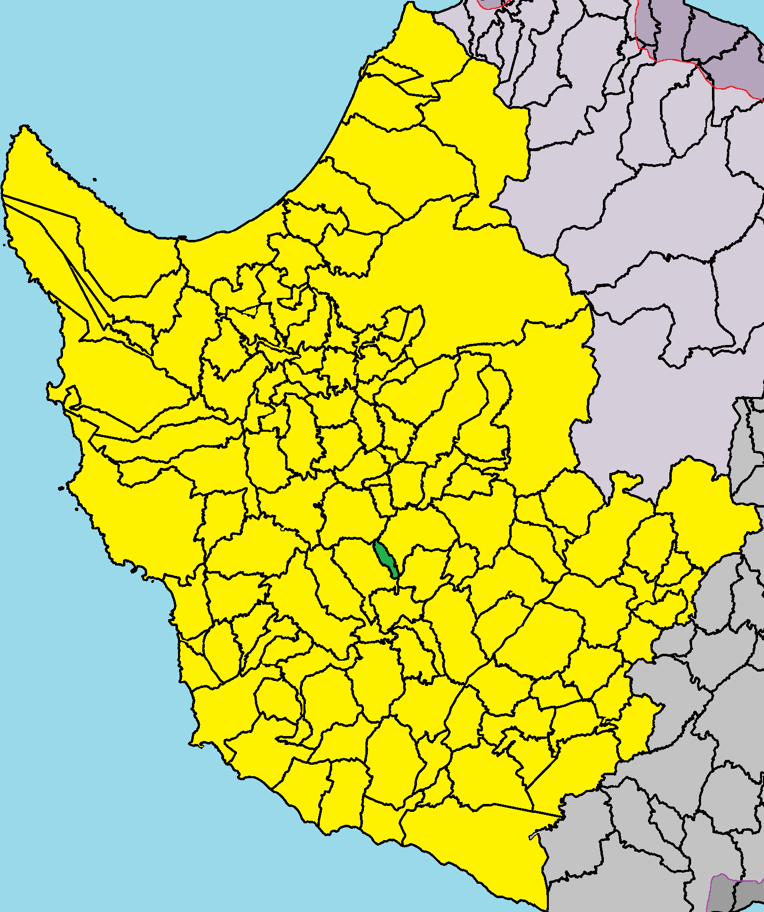 Kourtaka in Paphos District.